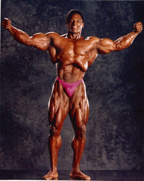 Tony Pearson, African American Bodybuilder, Posing